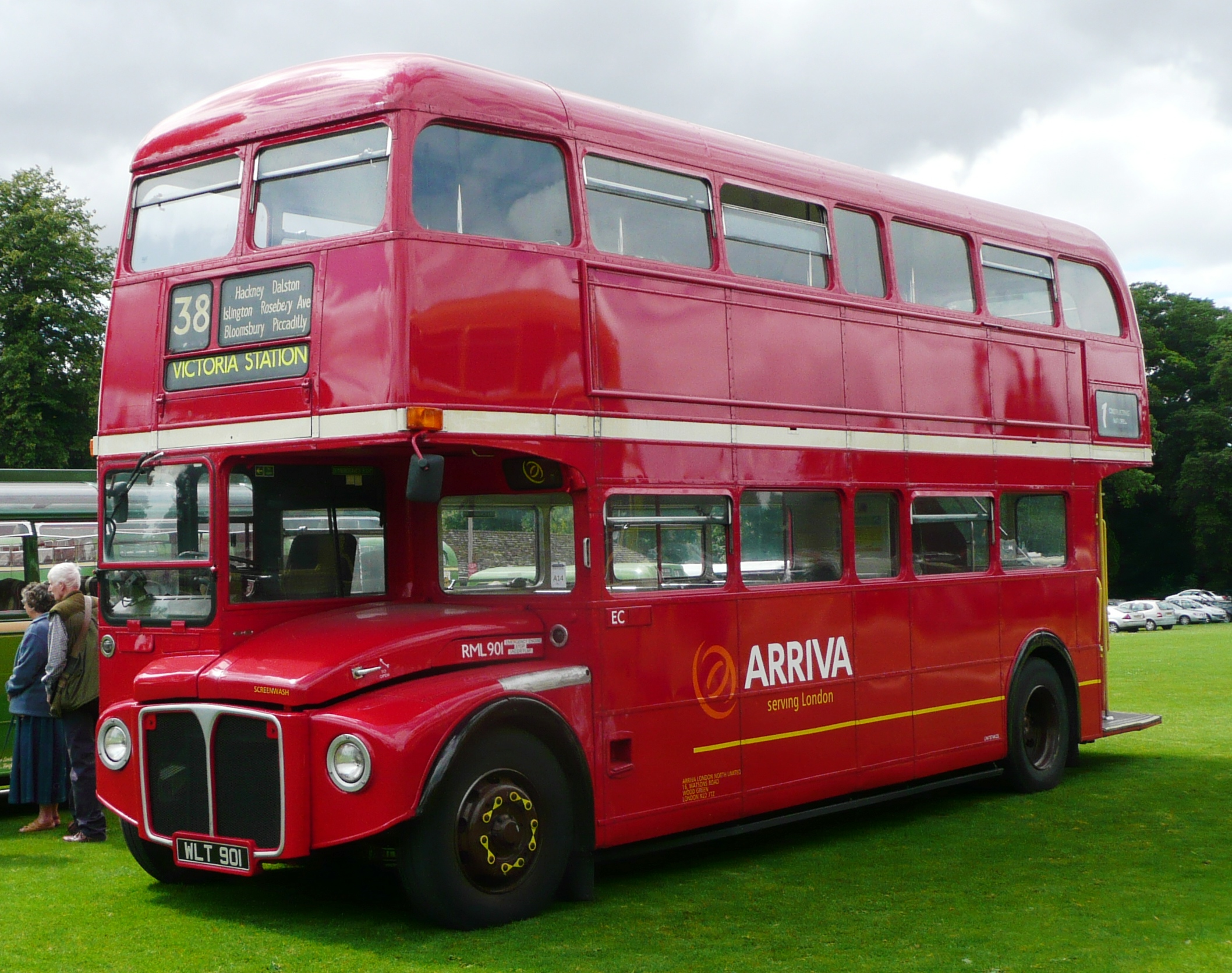 Arriva Heritage Fleet Routemaster bus RML901 (reg. WLT 901), pictured at the 2008 Alton bus rally at Alton, Hampshire. It's blinds are set as they were during its final public transport use, on Arriva London's route 38.